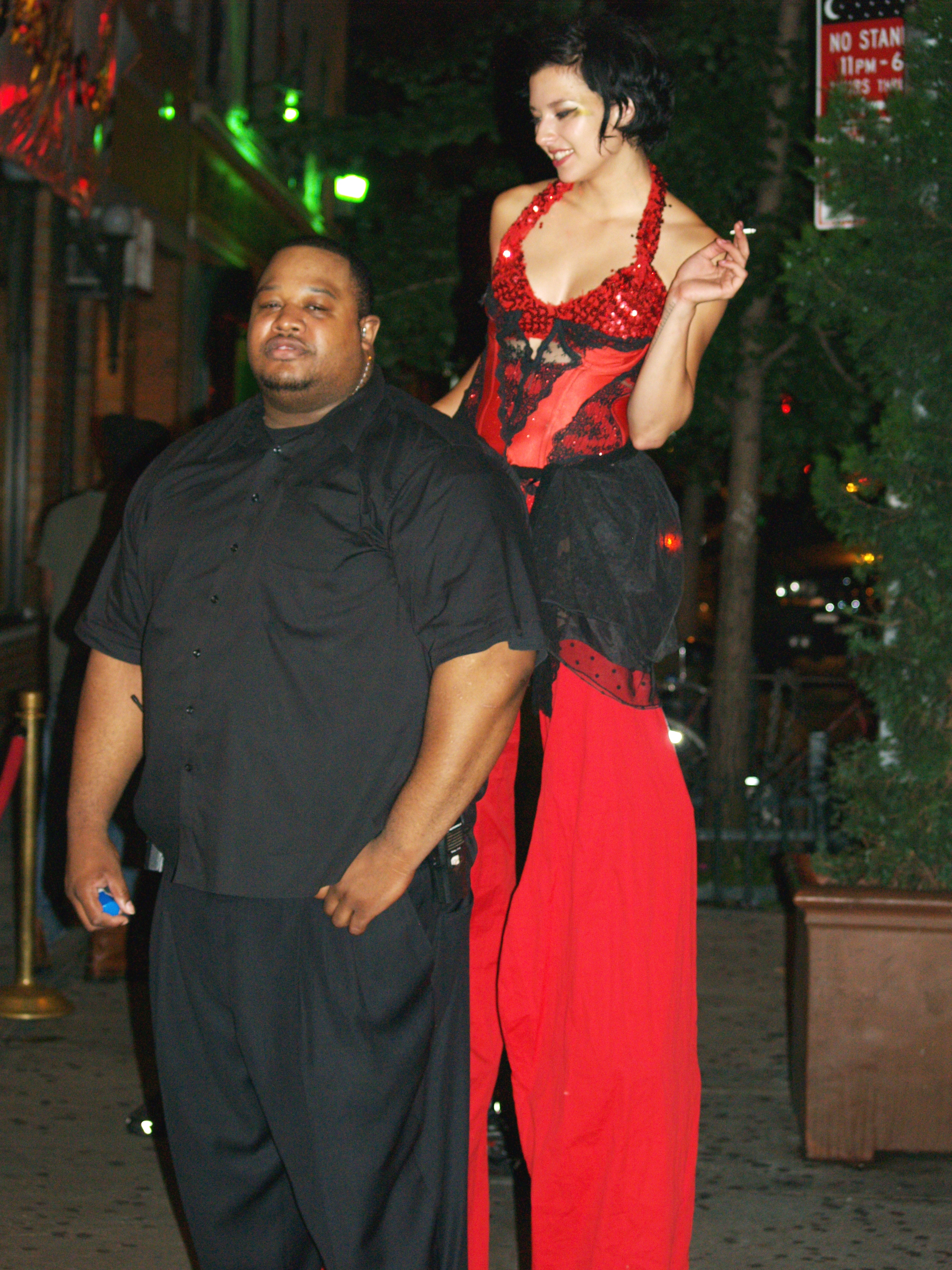 A doorman to a bar with stilt walker, Anya of Lady Circus, on Avenue B in the East Village of New York City.